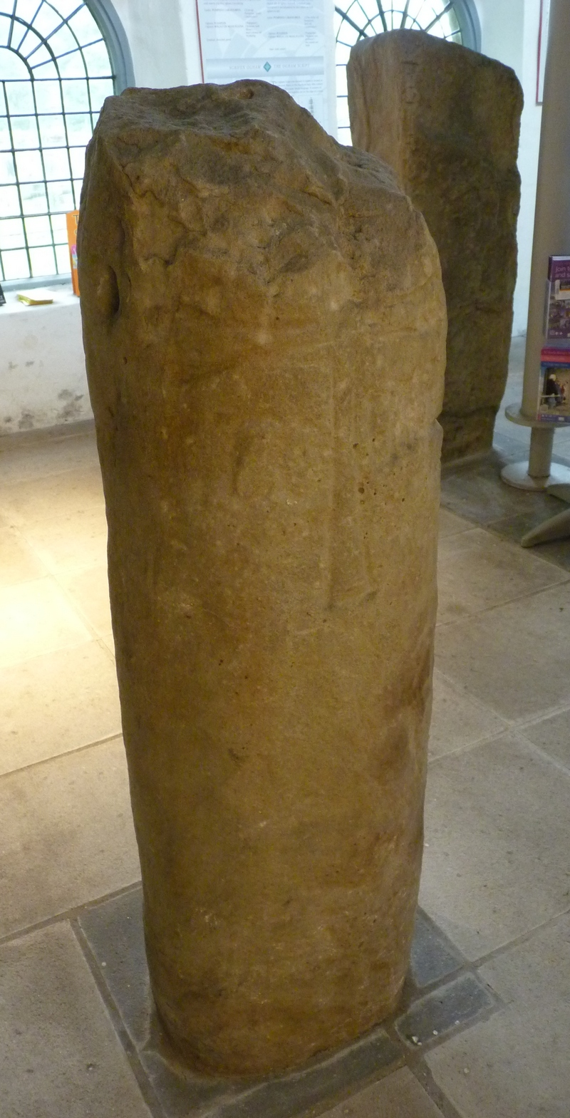 Early 9th C stone piller with three incised crosses, and the inscription 'TO ME' (that is, 'Thomas'). From Cwrt Uchaf Farm, Port Talbot, it is now in Margam Stones Museum.